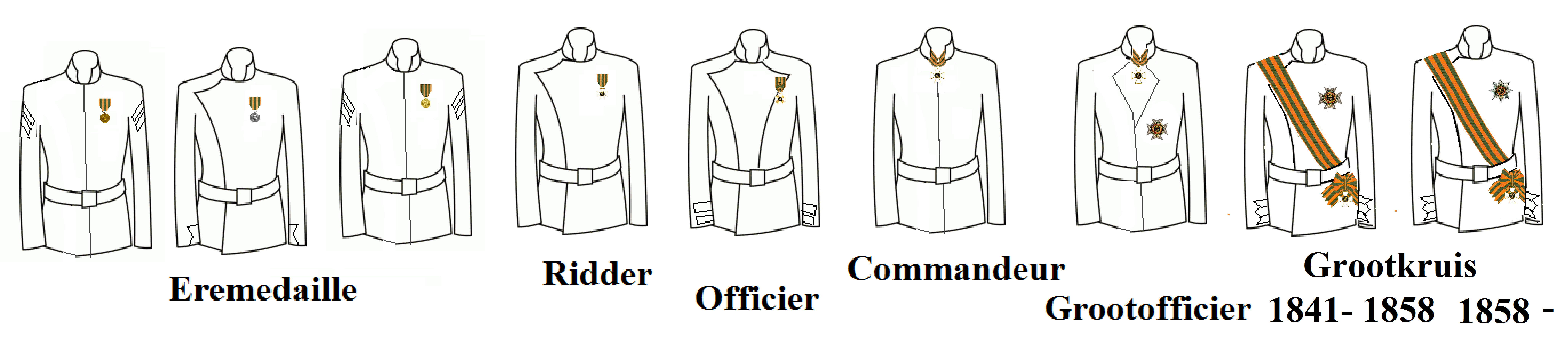 Order of the Oak Crown Luxemburg Ordre de la Couronne de Chêne